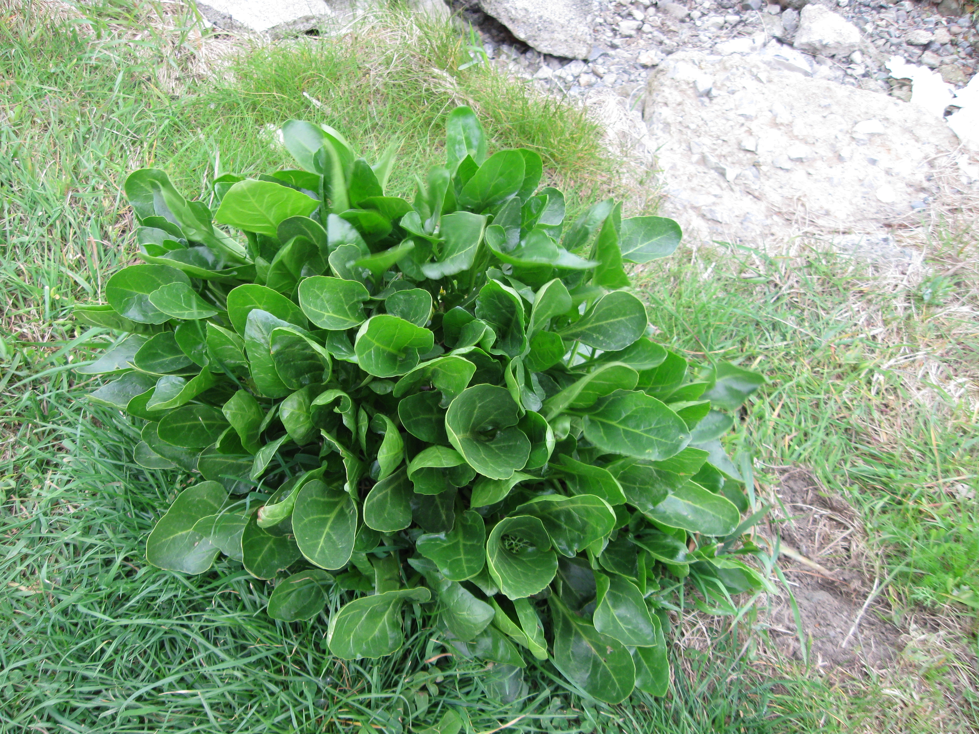 Sea Beet